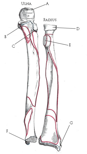 Left elbow joint, showing anterior and internal ligaments Unless stated otherwise, this image is from the 20th U.S. edition of Gray's Anatomy of the Human Body, originally published in 1918 and therefore lapsed into the public domain. A copy of Gray's Anatomy can be found on Bartleby and also on Yahoo!. This image is in the public domain because it is a mere mechanical scan or photocopy of a public domain original, or – from the available evidence – is so similar to such a scan or photocopy that no copyright protection can be expected to arise. The original itself is in the public domain for the following reason: This work is in the public domain in its country of origin and other countries and areas where the copyright term is the author's life plus 100 years or fewer. This work is in the public domain in the United States because it was published (or registered with the U.S. Copyright Office) before January 1, 1925. This file has been identified as being free of known restrictions under copyright law, including all related and neighboring rights. This tag is designed for use where there may be a need to assert that any enhancements (eg brightness, contrast, colour-matching, sharpening) are in themselves insufficiently creative to generate a new copyright. It can be used where it is unknown whether any enhancements have been made, as well as when the enhancements are clear but insufficient. For known raw unenhanced scans you can use an appropriate PD-old tag instead. For usage, see Commons:When to use the PD-scan tag. Note: This tag applies to scans and photocopies only. For photographs of public domain originals taken from afar, PD-Art may be applicable. See Commons:When to use the PD-Art tag.